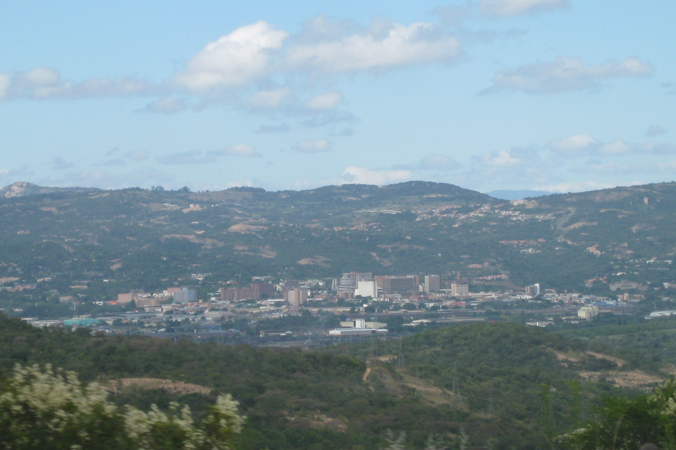 A view of Nelspruit, South Africa